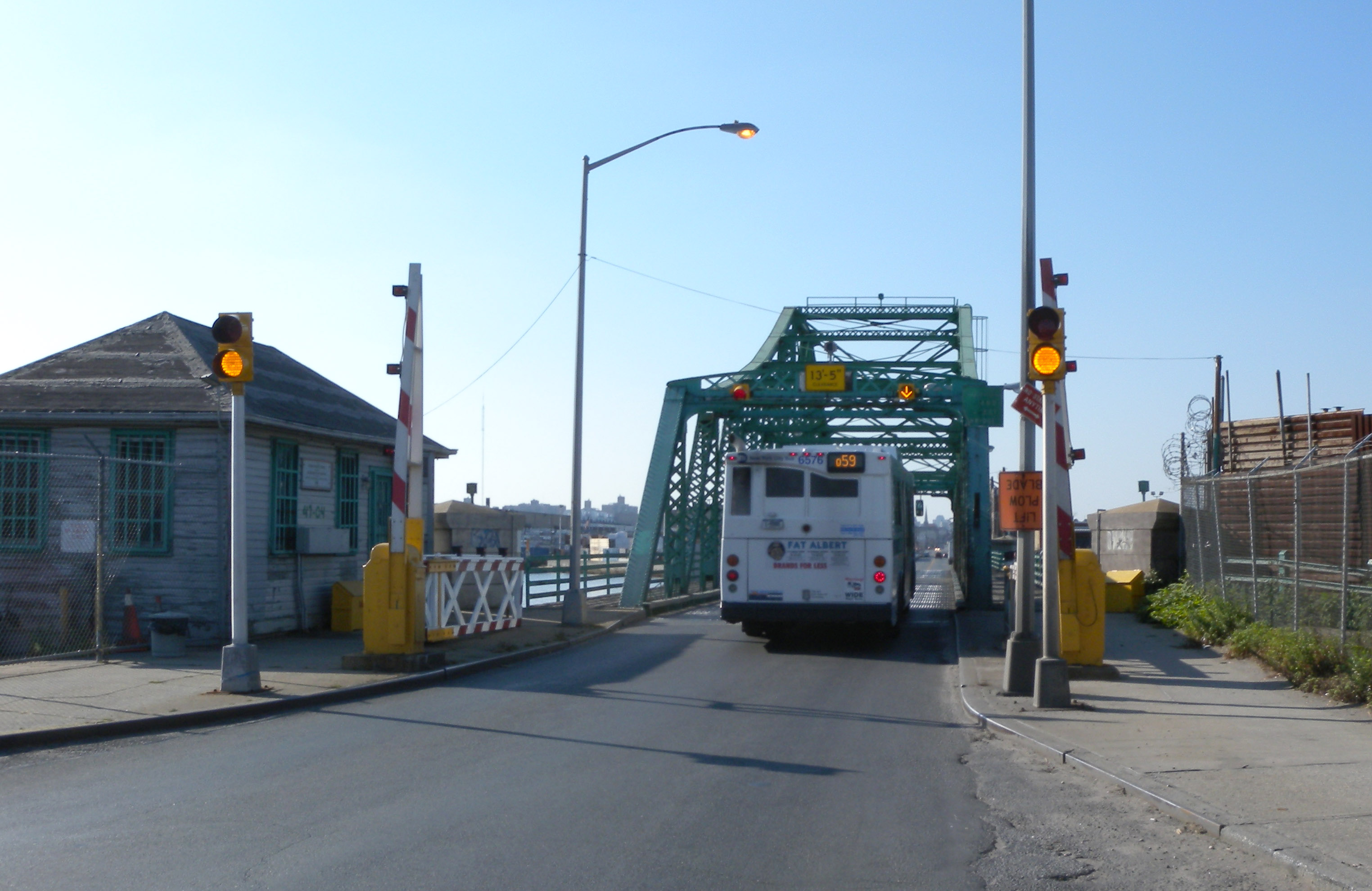 Looking west as a Q59 bus crosses Grand Street Bridge on a sunny midday.